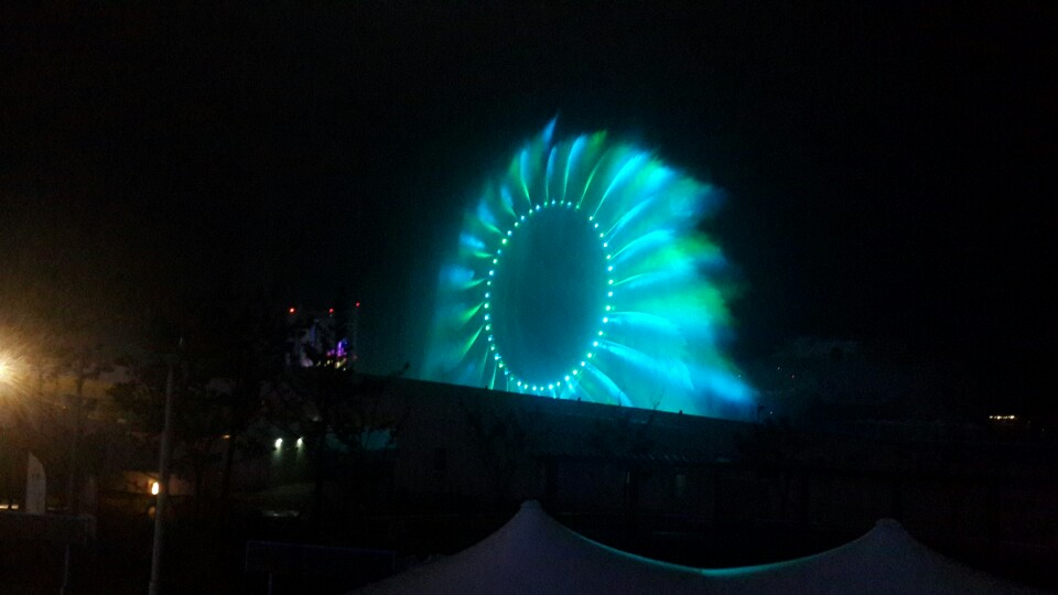 Big-O show4